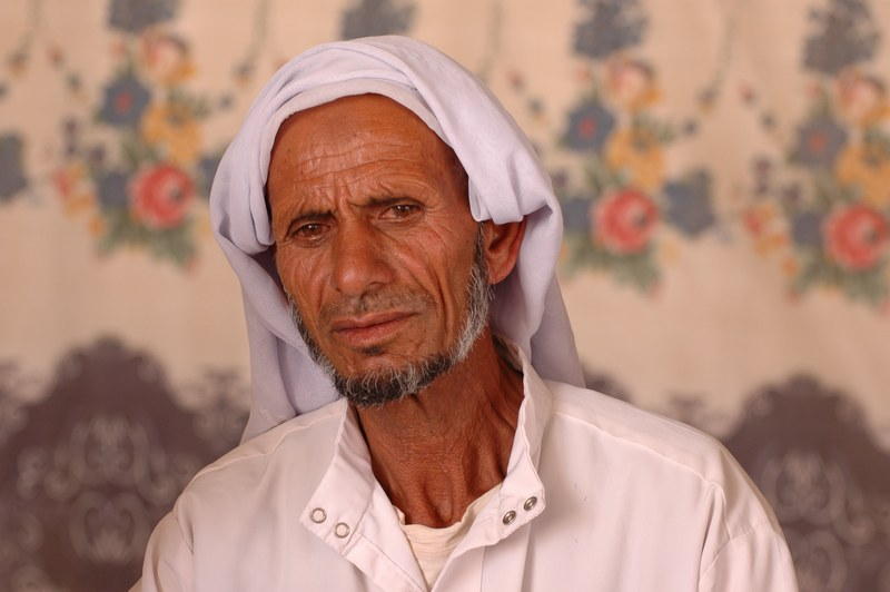 Suliman Tarabin, Israeli Bedouin, a father of Ouda Tarabin arrested by Egyptian authorities.